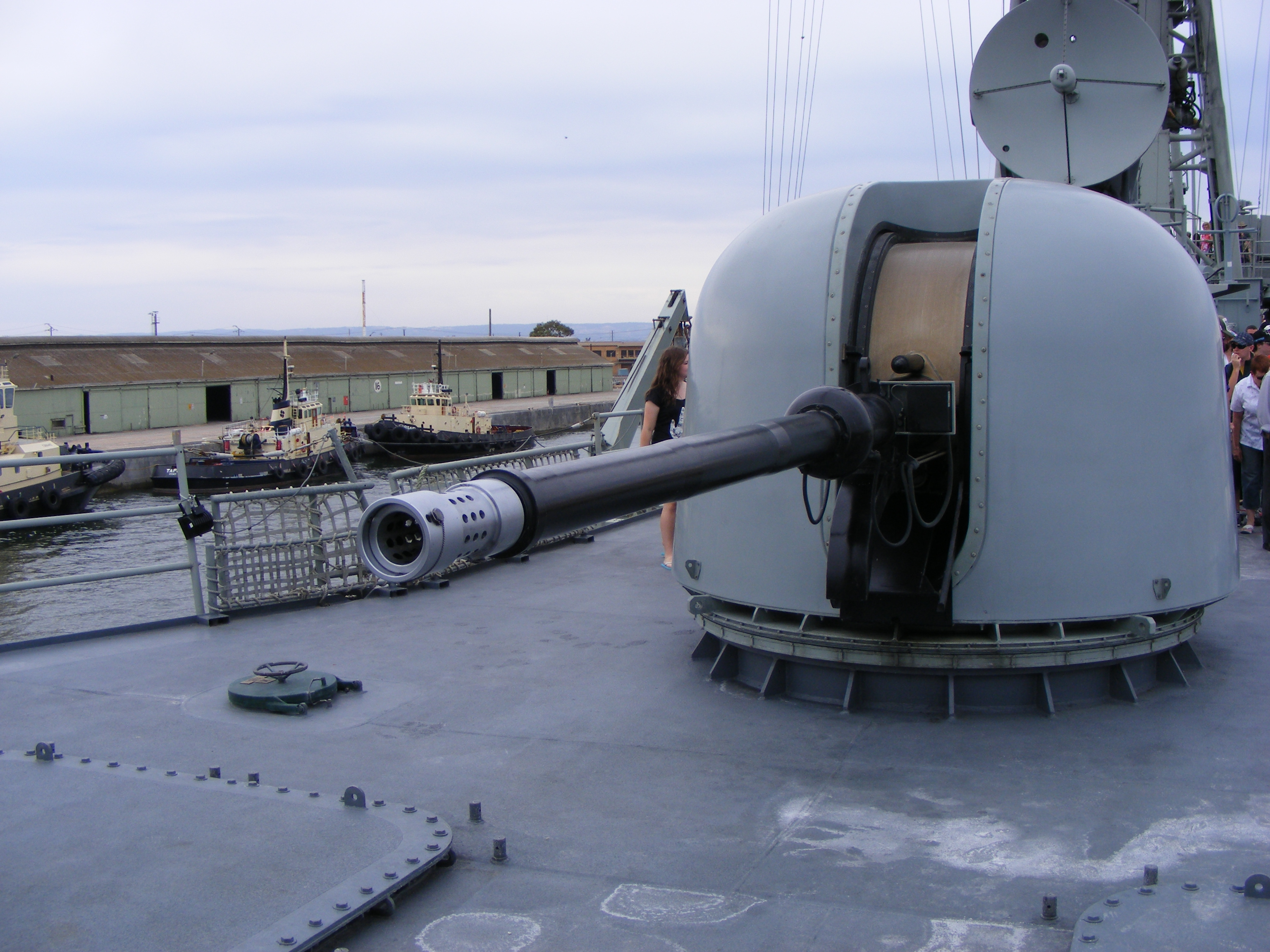 The Mk75 76mm rapid fire naval gun on the HMAS Adelaide (FFG01) Photo taken on an open day at Dock 2, Port Adelaide, South Australia